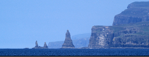 Macleod's Maidens Sea stacks off Idrigill Point at the entrance to Loch Bracadale, Isle of Skye